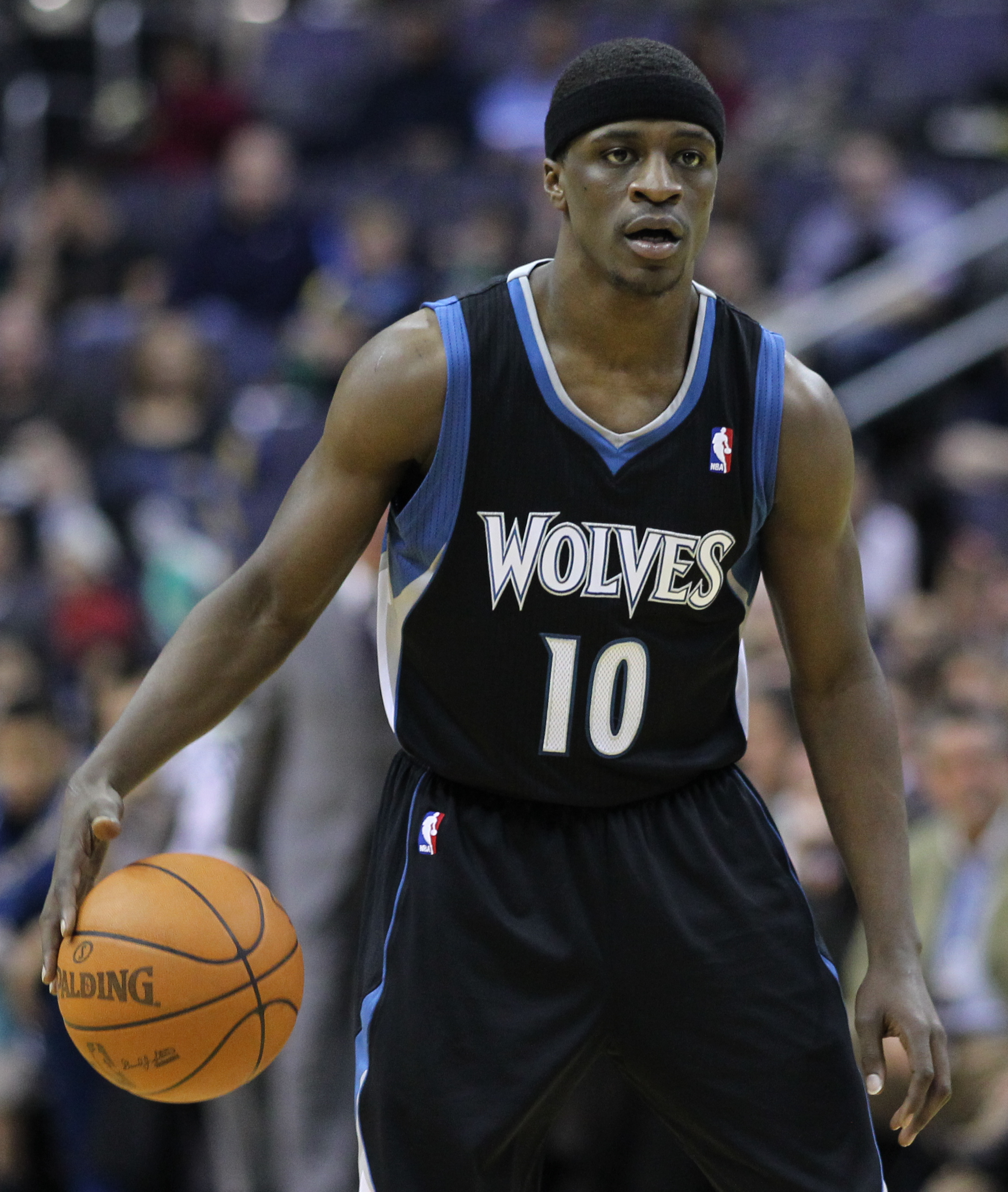 Wizards v/s Timberwolves 03/05/11